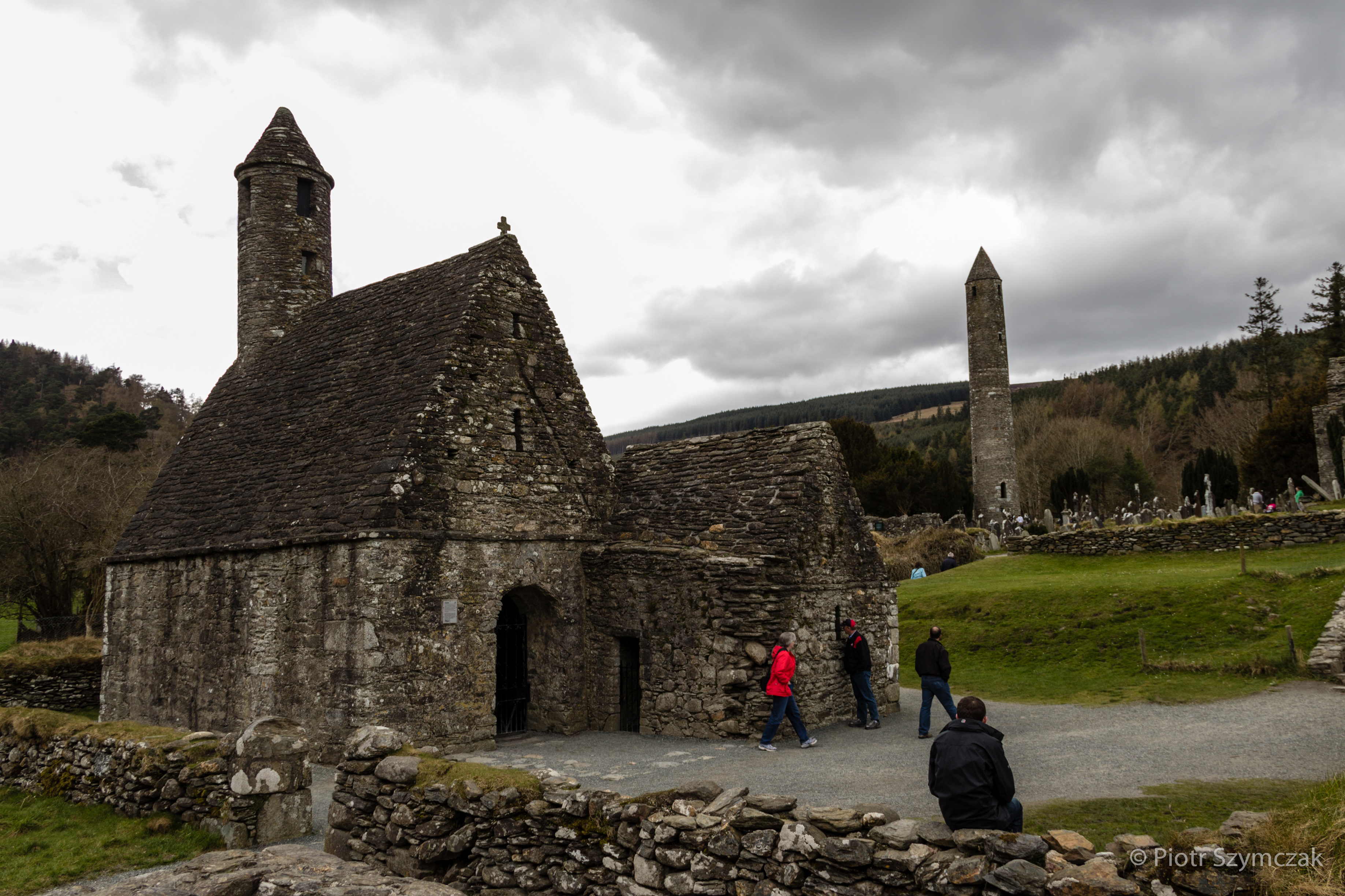 St. Kevin's Church, Glendalough, Co. Wicklow, Ireland